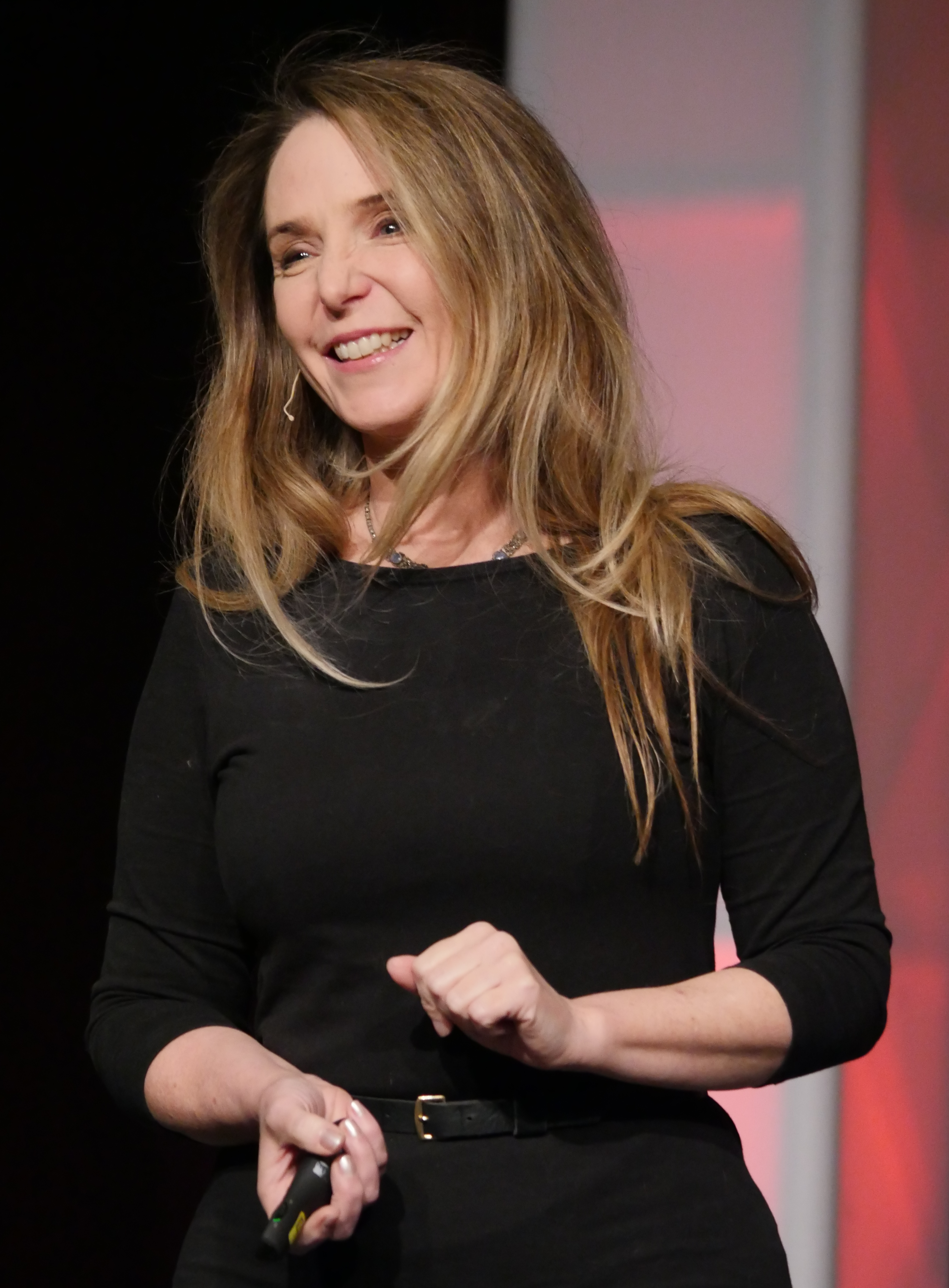 Deborah Hyde CSICon 2018 Interview with the Vampire Expert